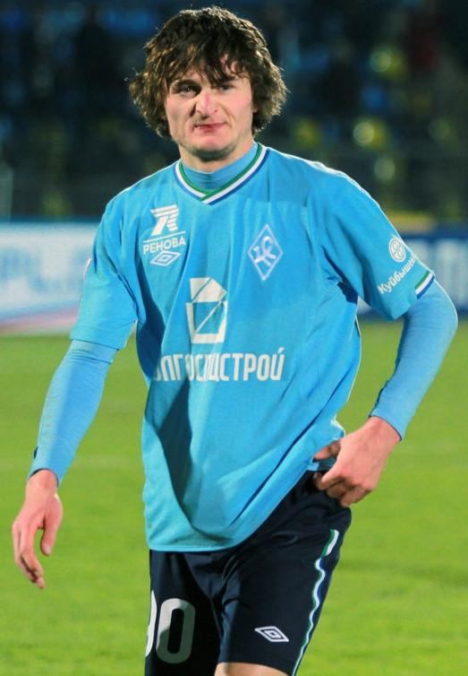 Khyzyr Appayev with FC Krylia Sovetov Samara in 2012.